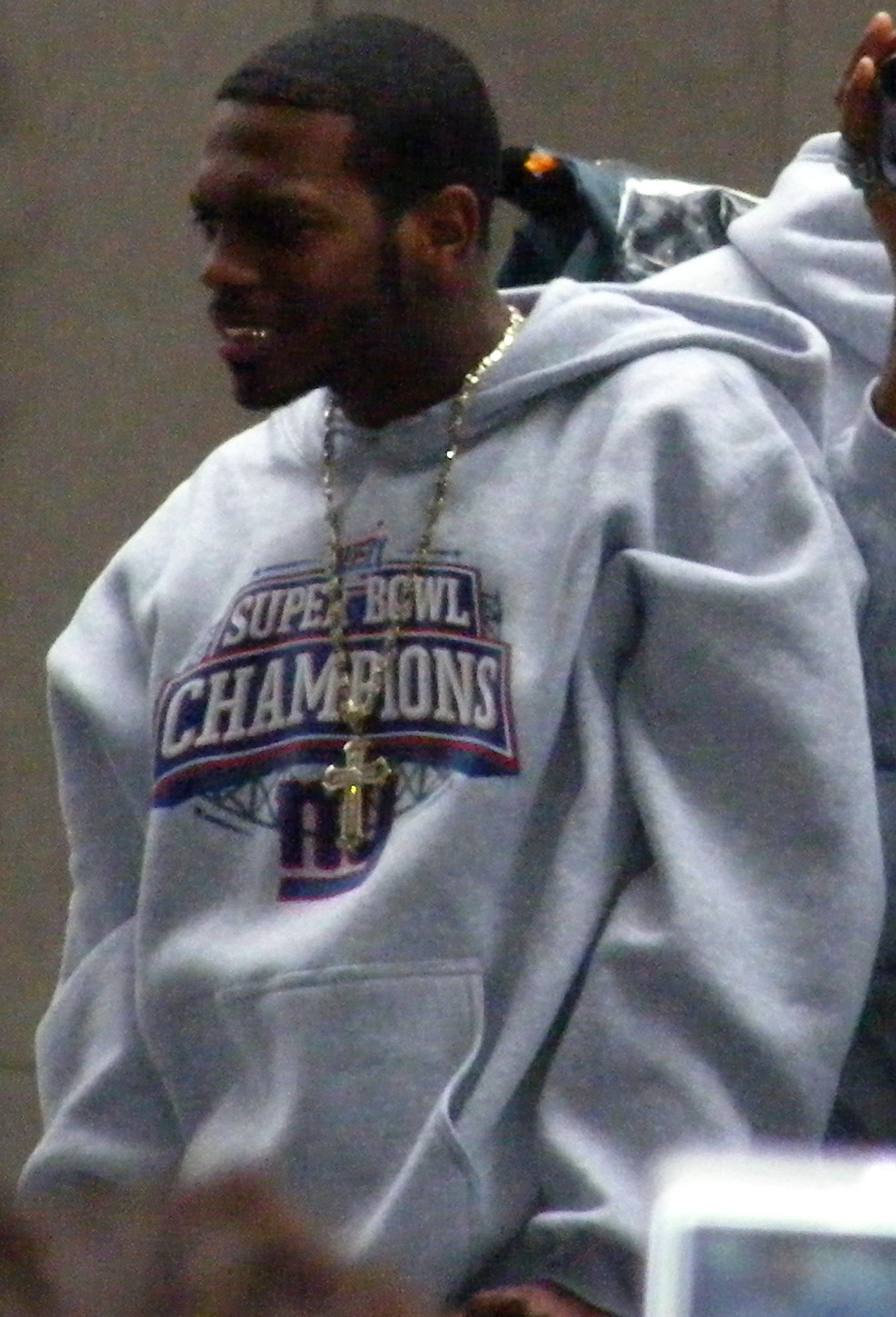 Jennings, Tyree and Moss